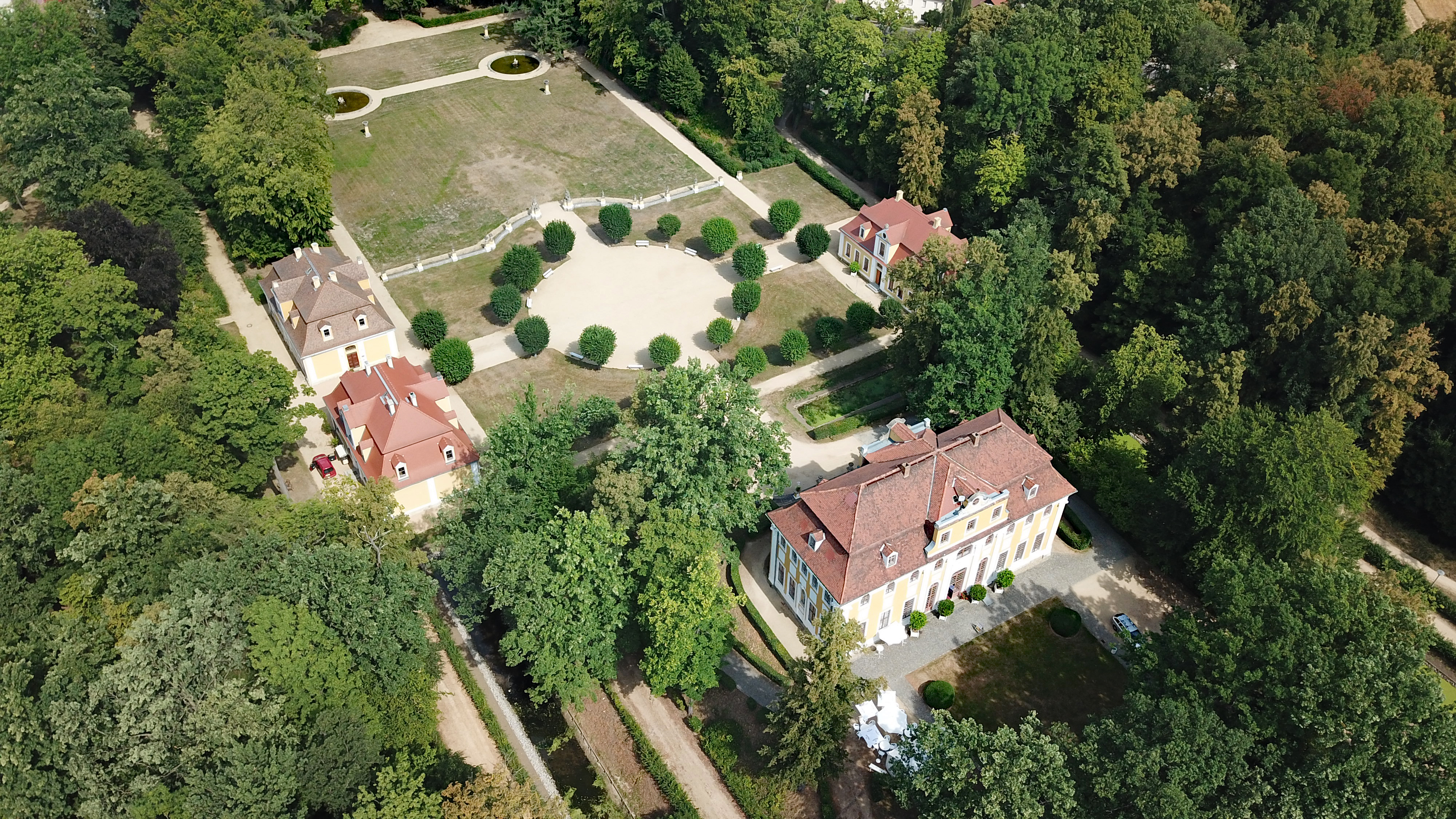 Barockschloss Neschwitz (Neschwitz, Saxony, Germany) Hornjoserbsce: Powětrowy wobraz Njeswačanskeho hrodu